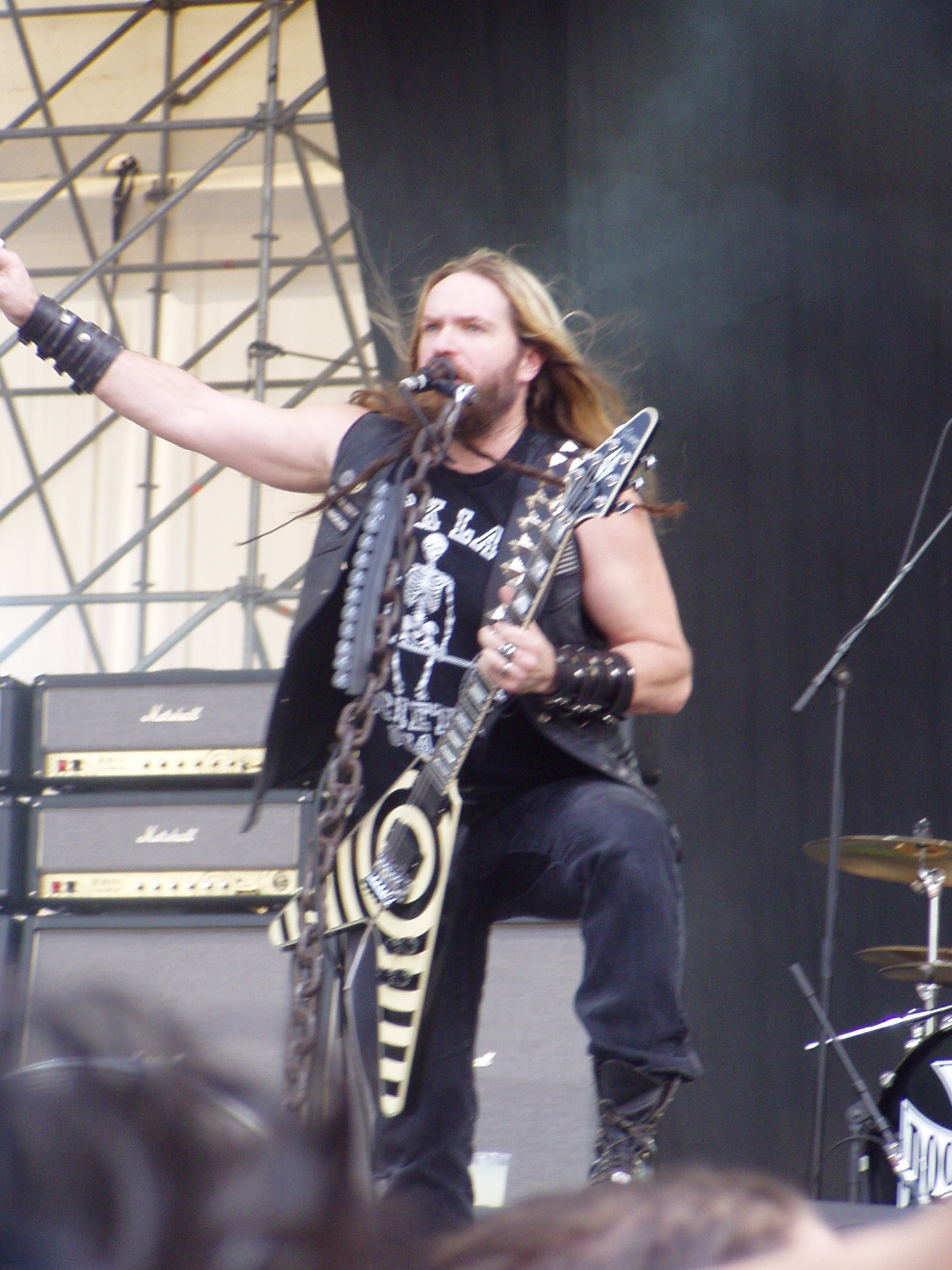 I Black Label Society al Gods of Metal